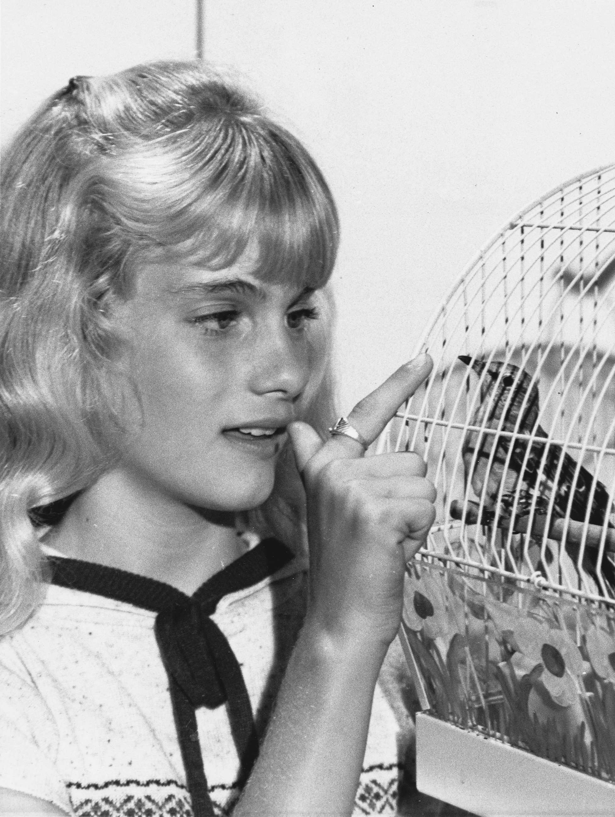 Publicity photo of American child actress, Julie Anne Haddock promoting the Tuesday, November 22, 1977 episode of the NBC television series Mulligan's Stew.